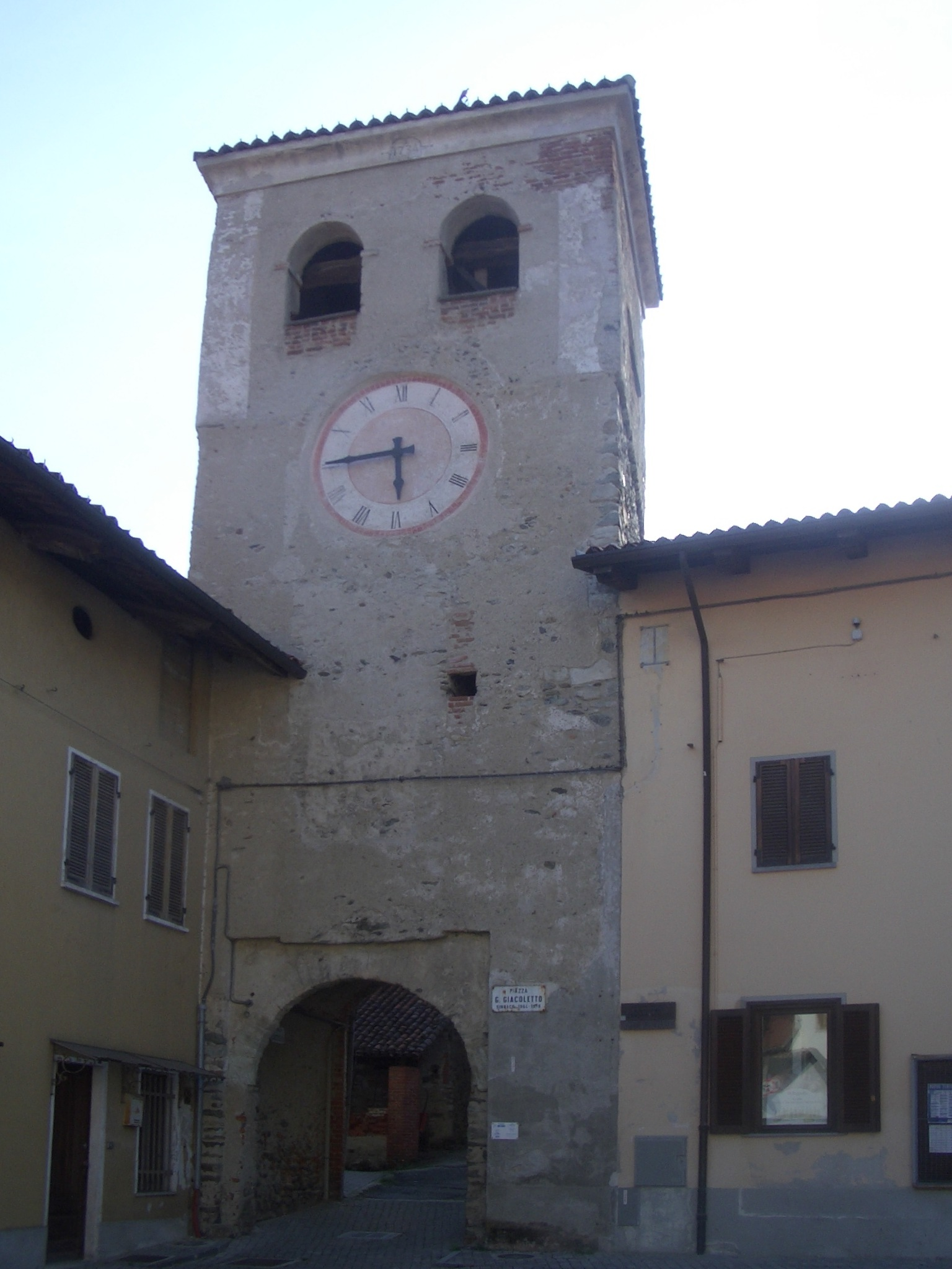 Levone, Clock tower: entrance to the medieval “ricetto”